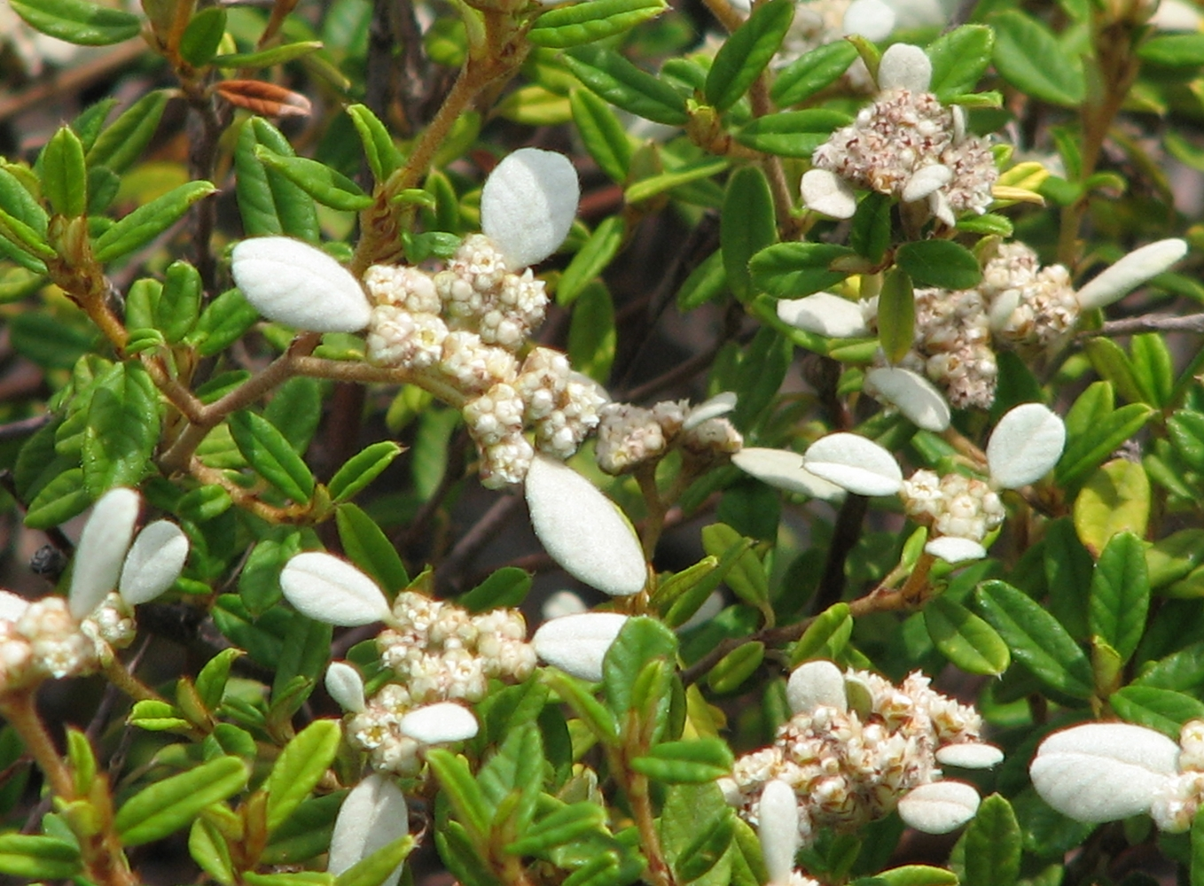 Spyridium vexilliferum (cultivated, labelled) Australian Garden, Royal Botanic Gardens Cranbourne, Victoria, Australia